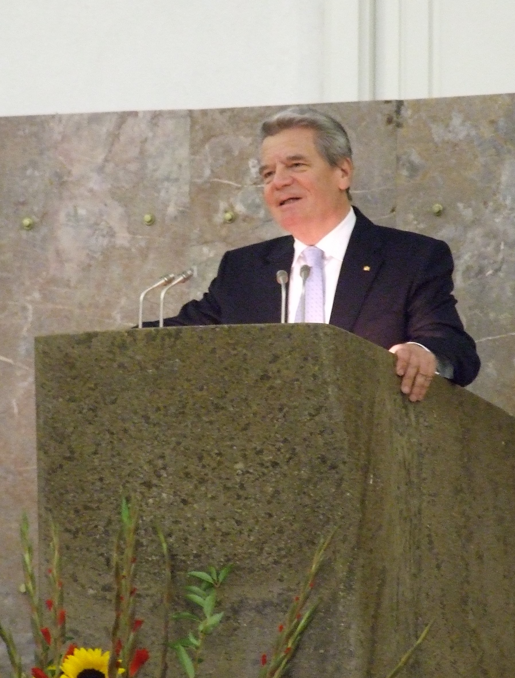 Joachim Gauck, at "Paulskirche" in Frankfurt am Main, Germany. During his speech about 20th anniversary of National Day (reunification).